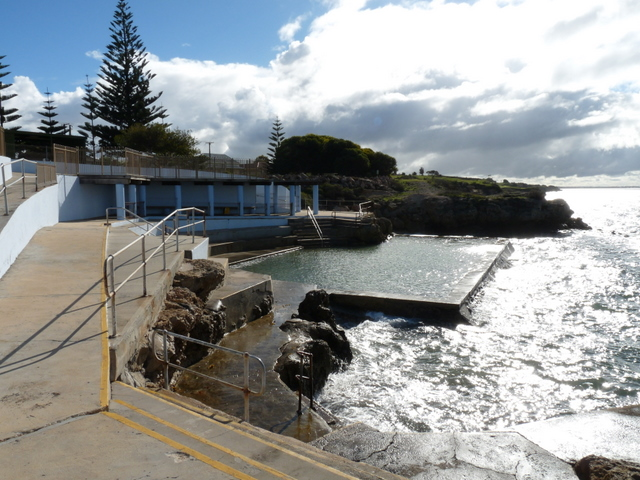 The saltwater swimming pool by the seaside at Edithburgh, South Australia